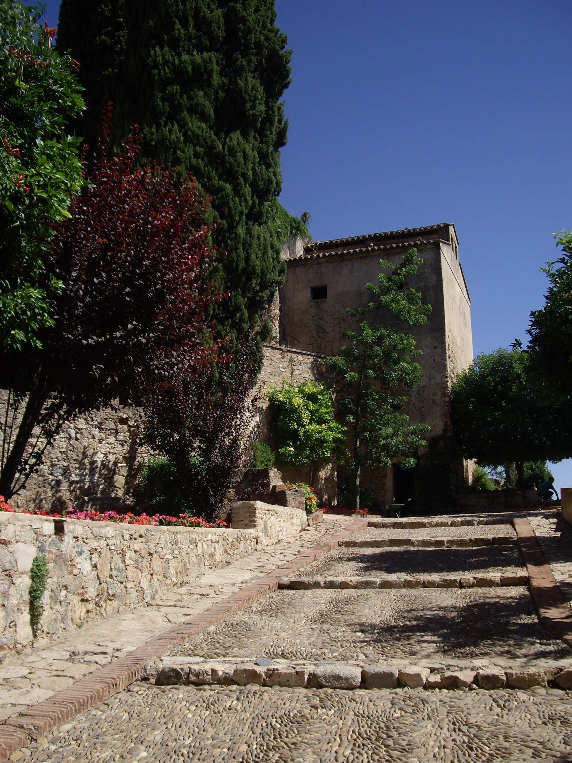 The Gardens of The Galley are a set of enclosures which origins date back to the 10th century. They are placed inside the enclosure walled of the city and in them there can be visited archaeological pieces (columns visigodas, building of The Galley, San Atón's door and remains of walls arábes and medieval towers).